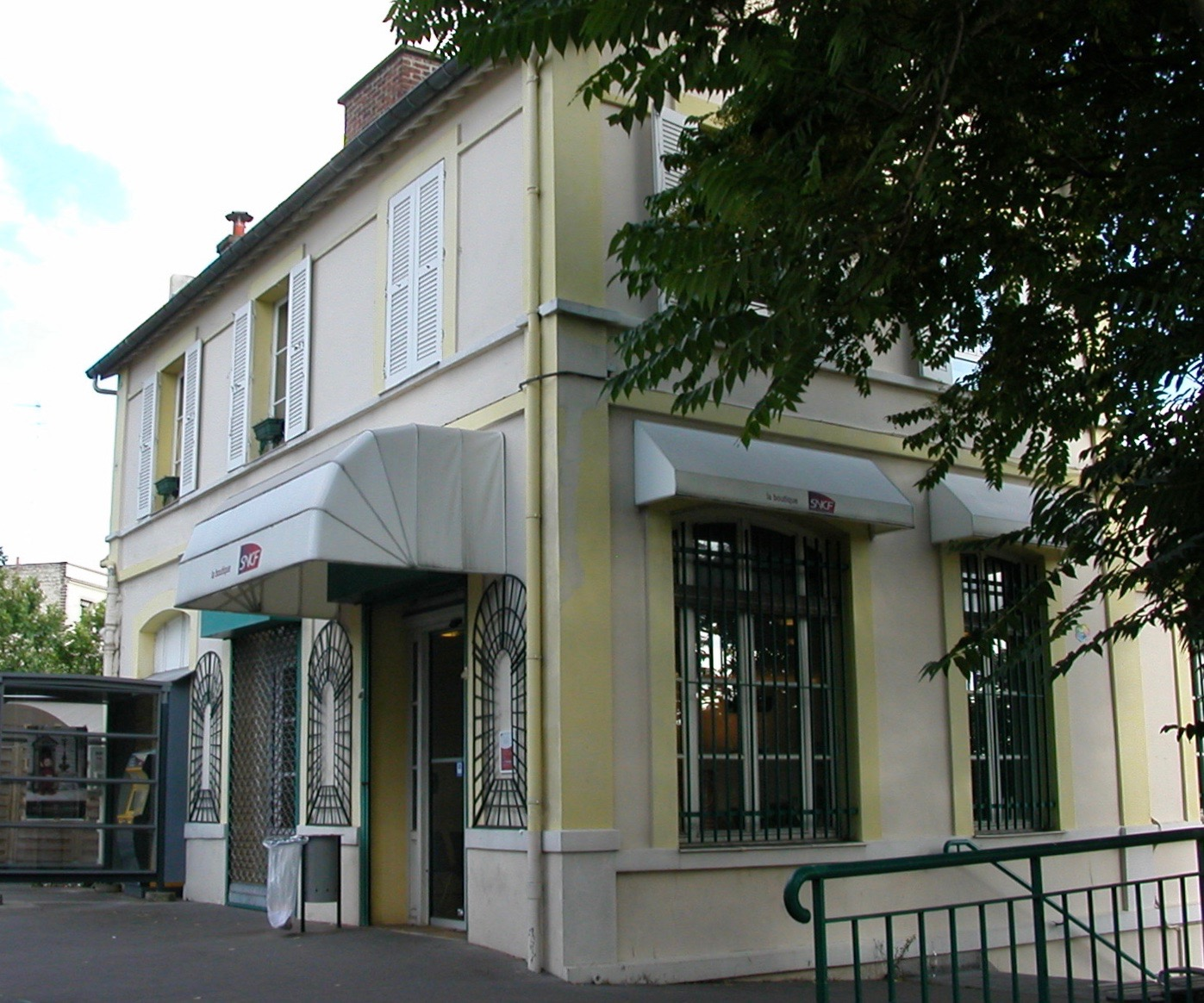 Former railway station « Porte d'Auteuil » in Paris